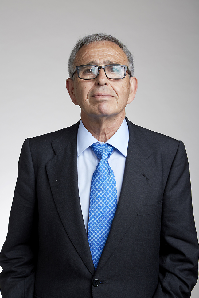 Ginés Morata Pérez ForMemRS is Research Professor at the Autonomous University of Madrid in Spain and an expert in developmental biology of the fruitfly fruit fly (Drosophila), a specialty he has worked on for over 40 years Attribution: The Royal Society